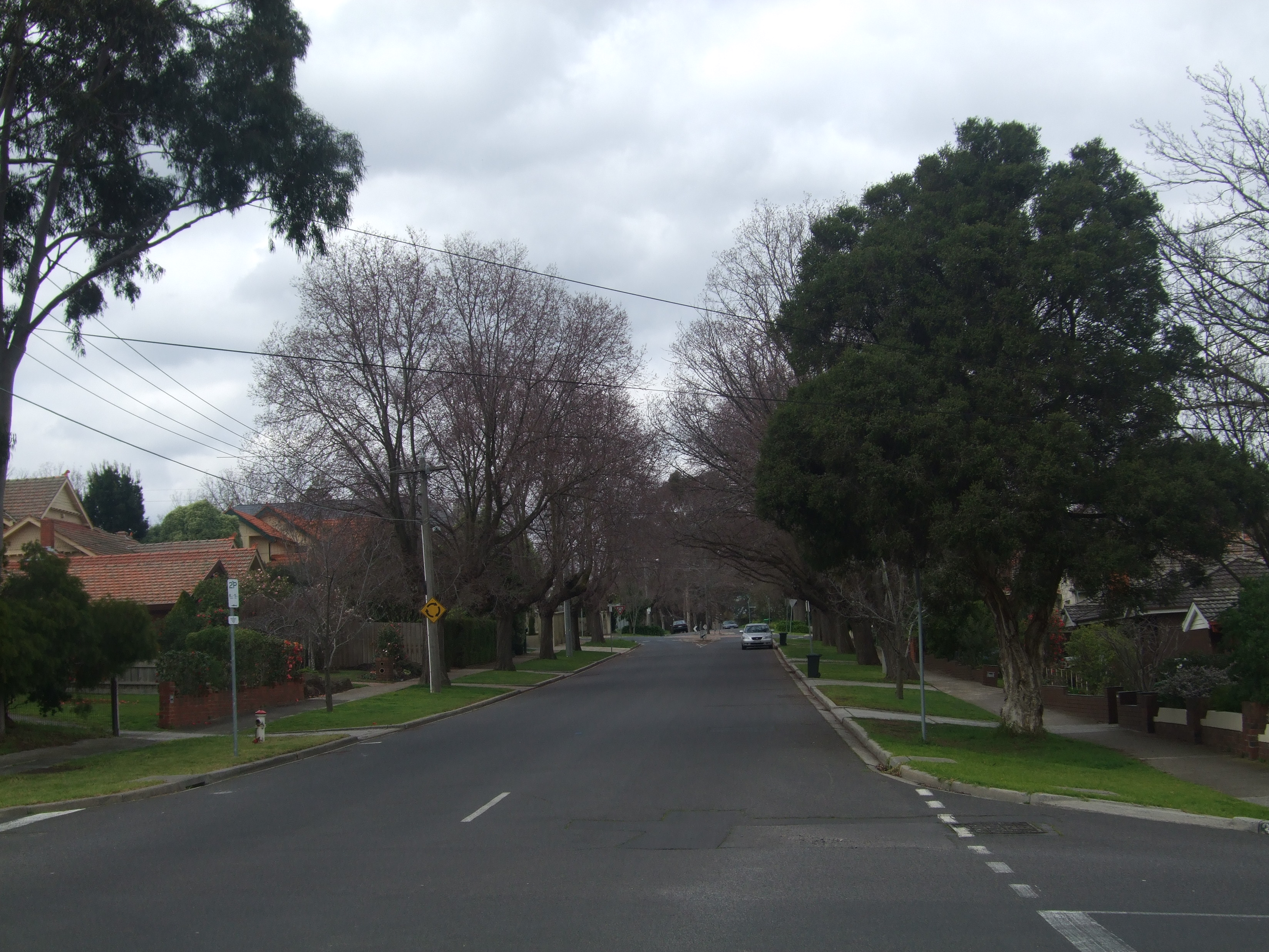 Typical street in Eaglemont, Victoria